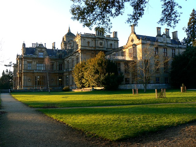 Westonbirt House south east corner, Tetbury The building was built in the 1860s on the strength of shrewd investments in the company that supplied water to London. Clearly it was a very profitable venture as the size, scale and attention to detail inside and out must have made this a costly property to build. Time and generations of schoolgirls have taken their toll though and money is needed to repair and improve the house and grounds